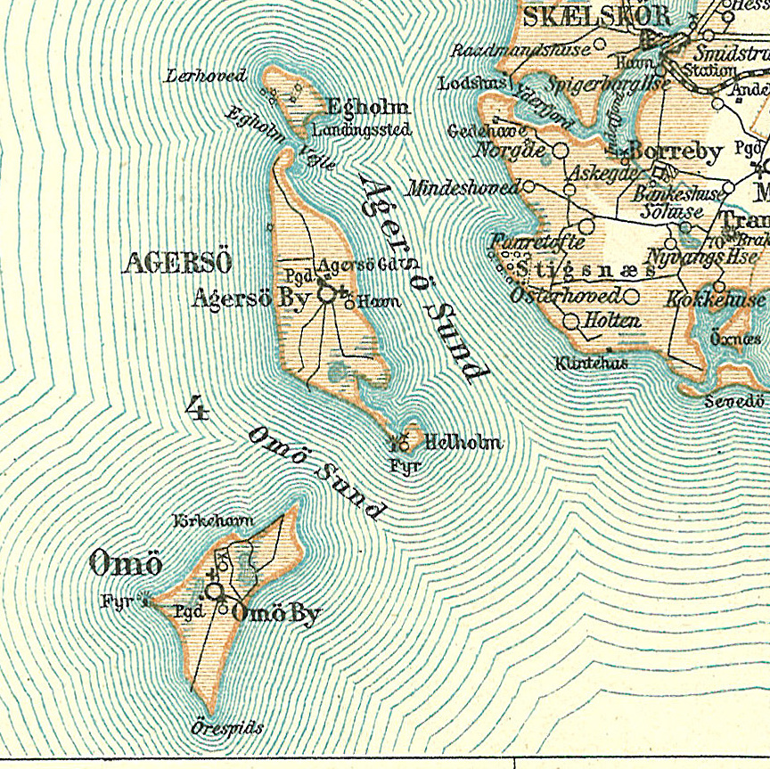 Map Agersø og Omø in Sorø County in Denmark